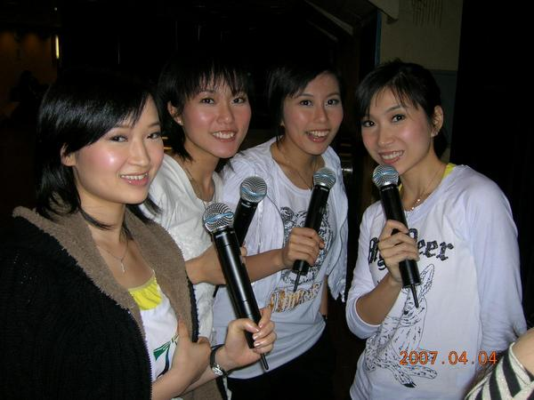 中文（香港）: Eternity Girls 於 理想‧點音樂會(2007)